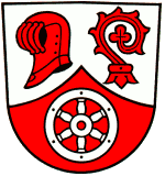 Coat of Arms of Neunkirchen